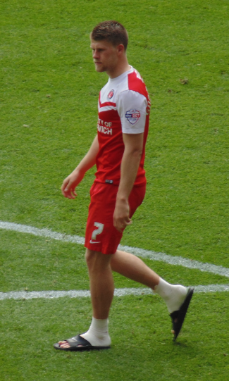 Johann Berg Gudmundsson